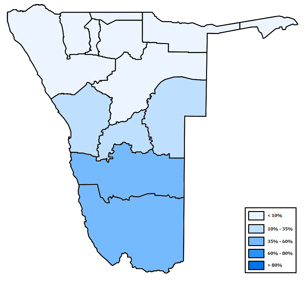 Distribution of Afrikaans in Namibia per region